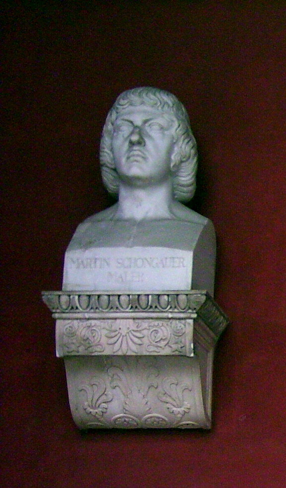 Bust of Martin Schongauer at Ruhmeshalle ("Hall of fame"), München, Germany. Picture taken by myself: Dominik Hundhammer, München, 27 March 2006.